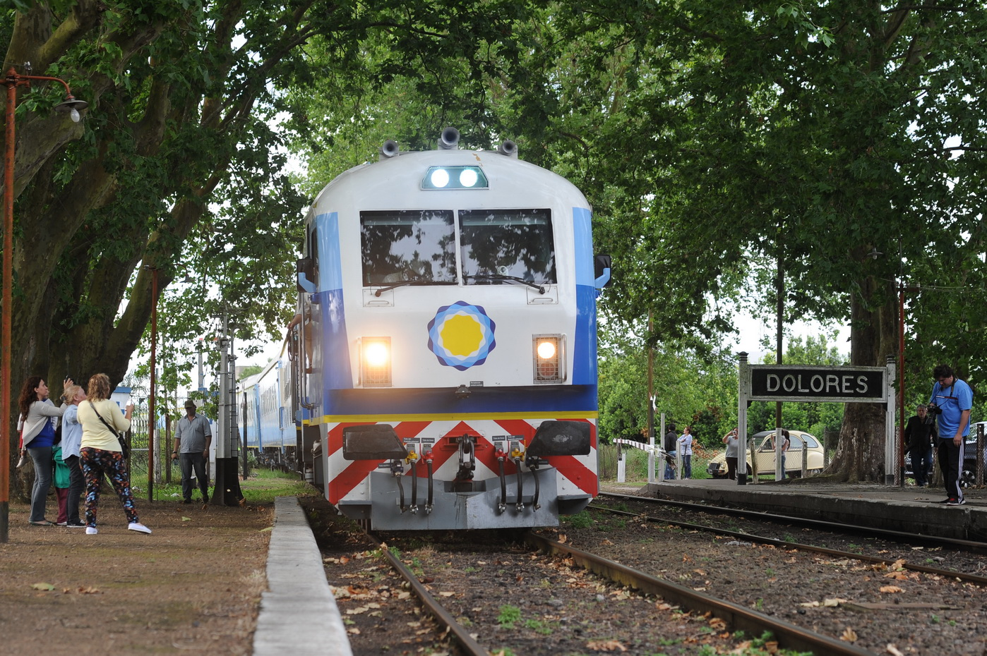 A CSR diesel electric train reaching Dolores station. The train serves the Buenos Aires-Mar del Plata route, running on Ferrocarril Roca tracks. At the background, a manually-operated barrier on the level crossing.